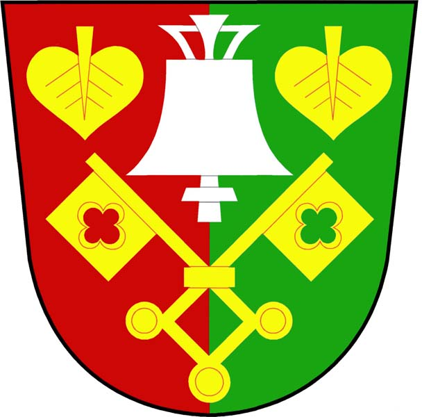 Municipal coat of arms of Kalhov village, Jihlava District, Czech Republic.